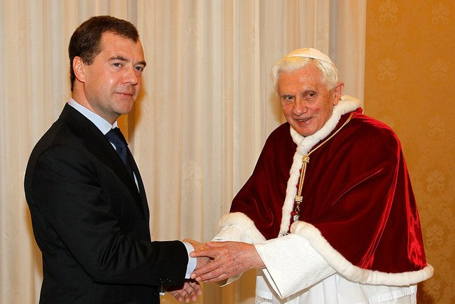 Dmitry Medvedev and Benedictus XVI. Vatican City. 17 feb 2011.